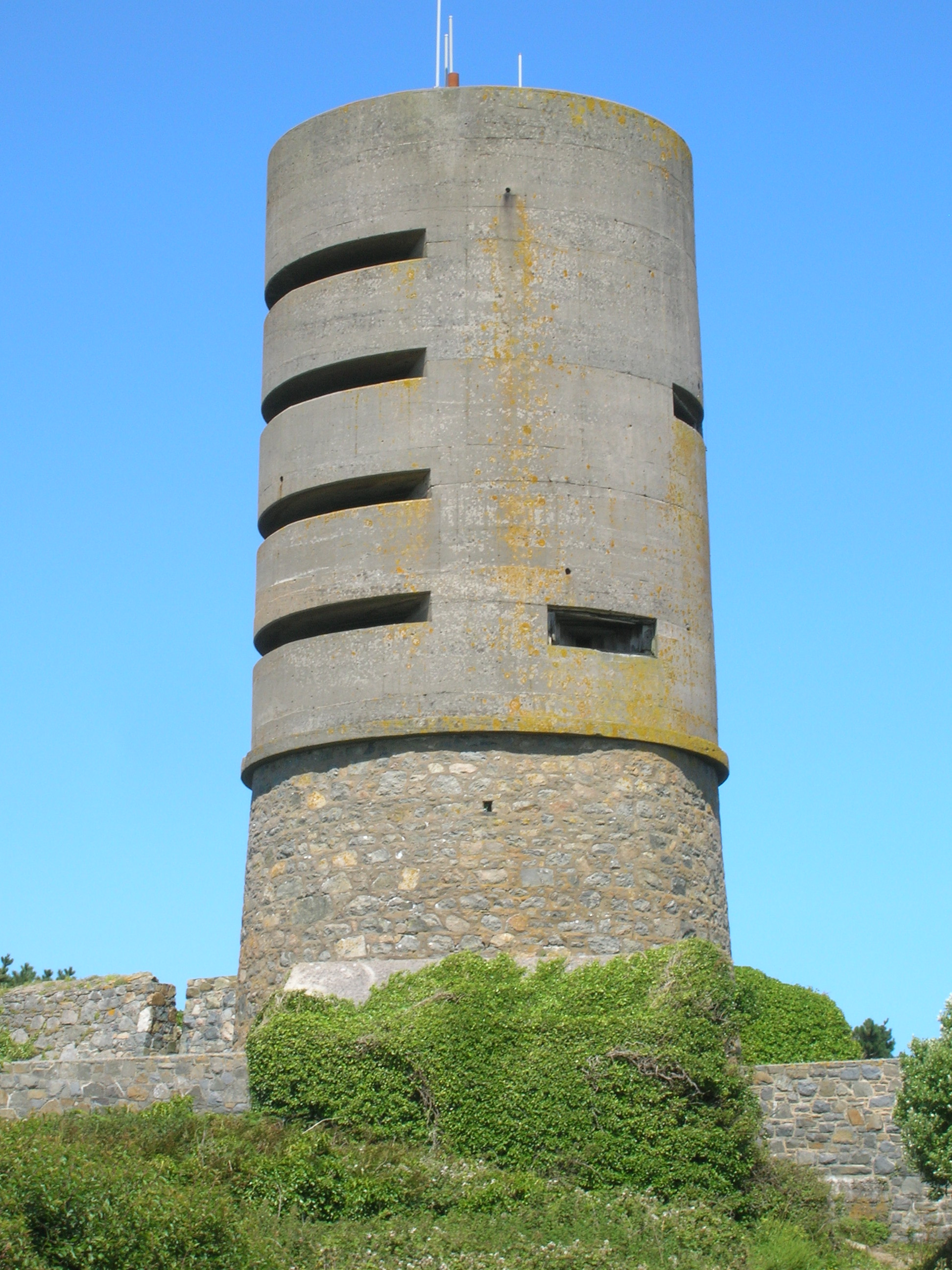 Photo of Fort Saumarez tower, Guernsey July 2012